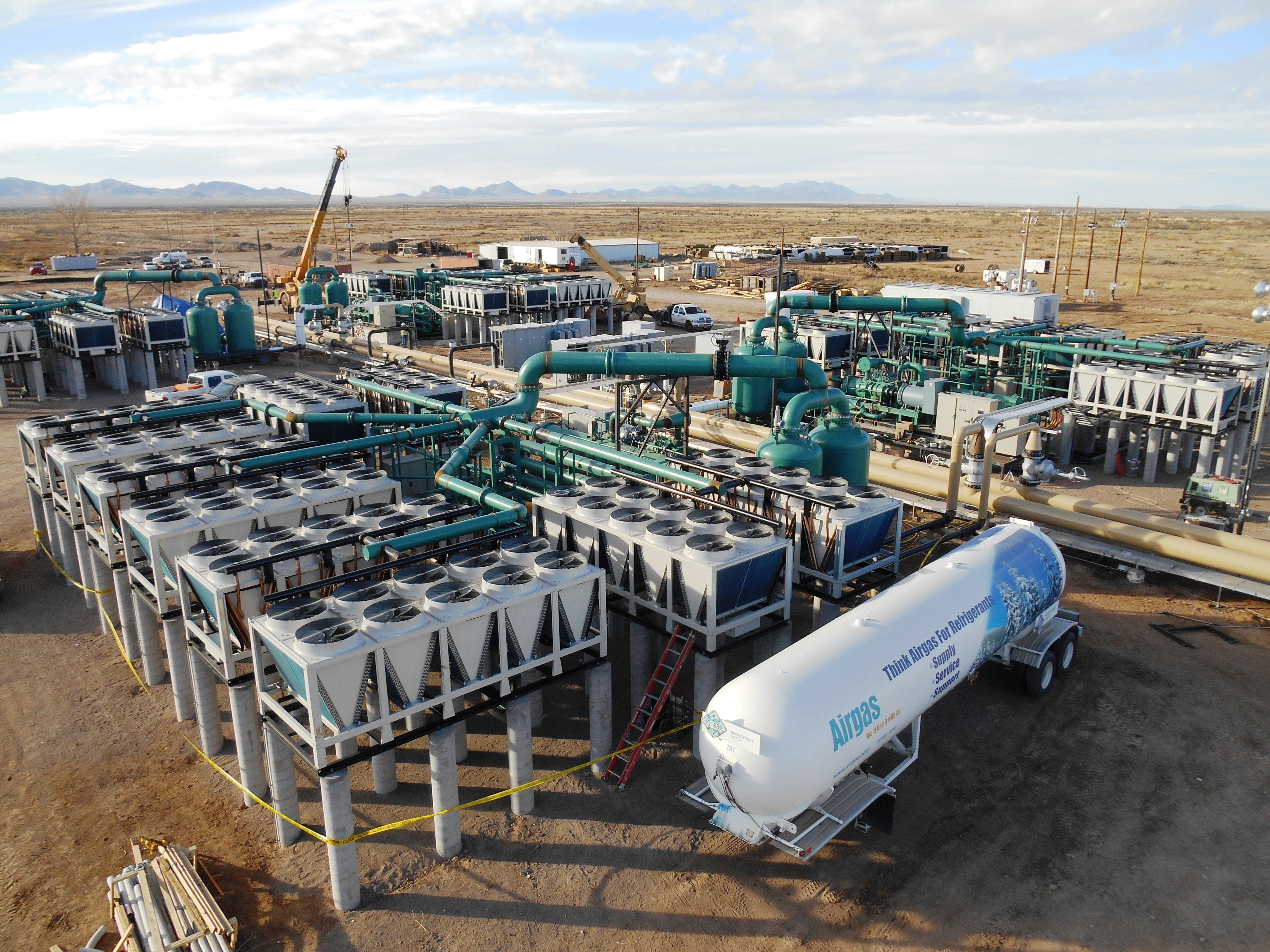 If you care about clean energy, the BLM is a major leader in making solar, wind, and geothermal energy possible. Since 2009, BLM has approved 57 renewable energy projects (34 solar, 11 wind, and 12 geothermal) with potential for over 15,000 MWs, or enough to power more than 5 million homes and create some 26,000 jobs. There are currently over 17,000 MWs of renewable energy projects permitted on public land, including 2,379 MWs of renewable energy projects approved prior to 2009. BLM is focused on approving renewable energy development on public lands in accelerated, but environmentally-responsible manner; ensuring protection of signature landscapes, wildlife habitats, and cultural resources. For the years 2016 and 2017, the BLM will process 7 renewable energy projects (5 solar and 2 geothermal) representing 1337 MW, or enough electricity to power over 400,000 homes. Photo by BLM New Mexico